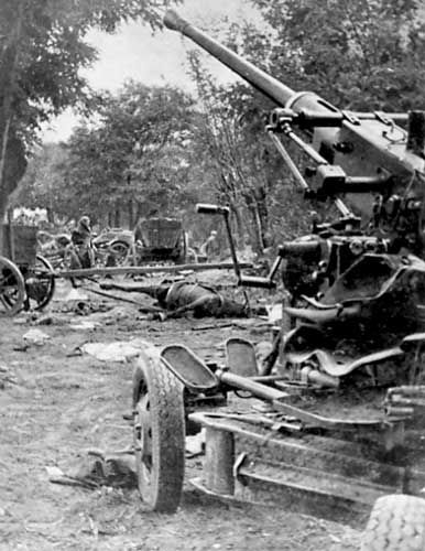 Polish artillery in Battle of Bzura 1939 after an air attack. Polish Bofors AA gun and a bombed column of Polish Army. As published here, this photo is reversed - the sight corrector should be on the right hand side of the gun.